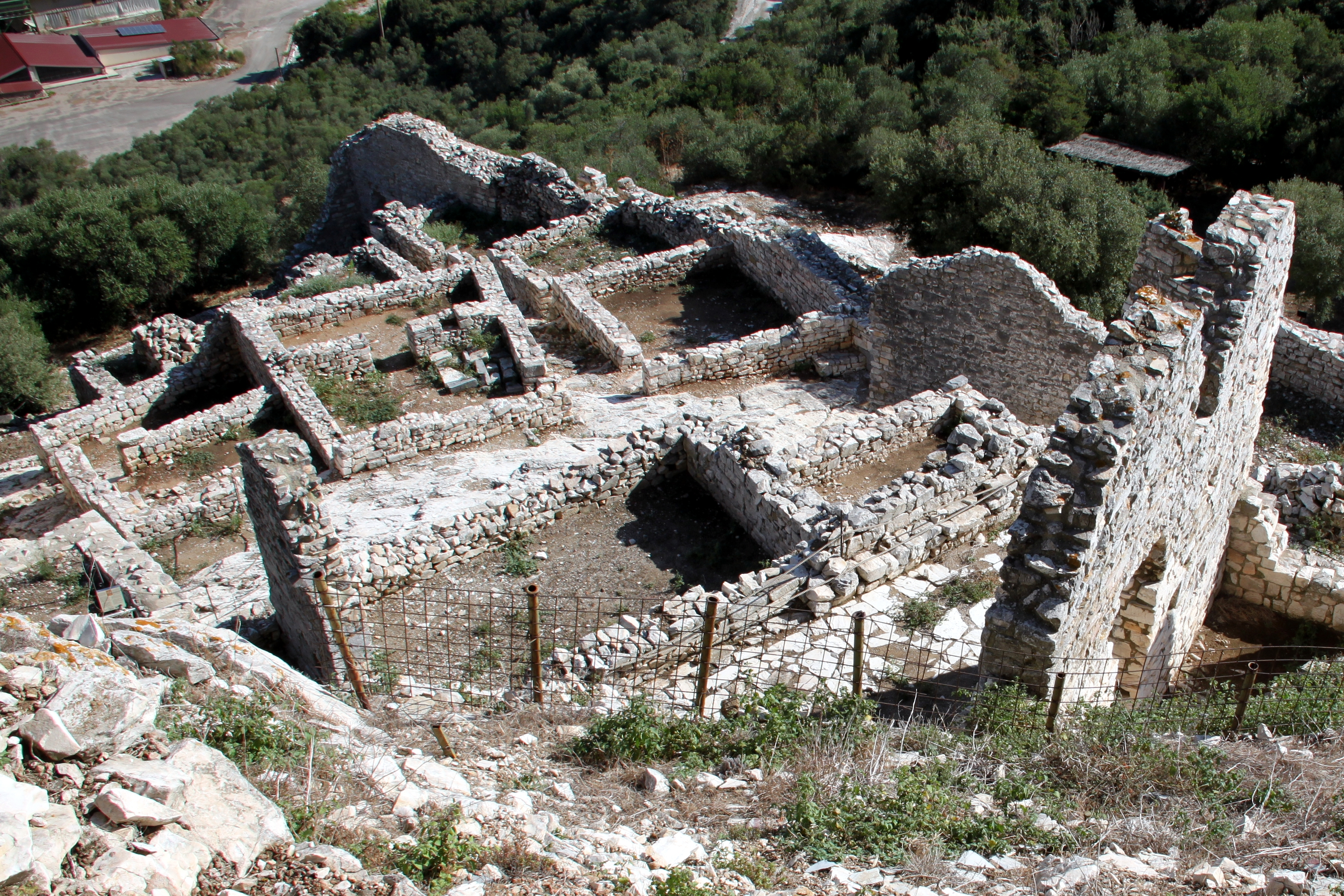 Rocca San Silvestro: Dwellings in the south of the castle